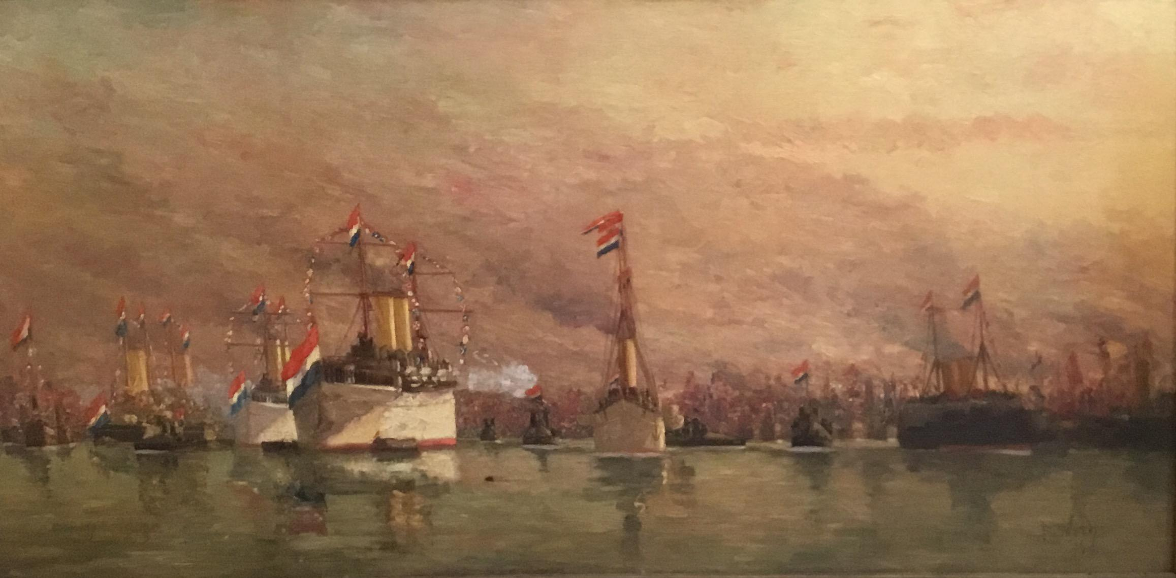 Bas Veth - Fleet inspection at the inauguration of Queen Wilhelmina. Oil painting on canvas.